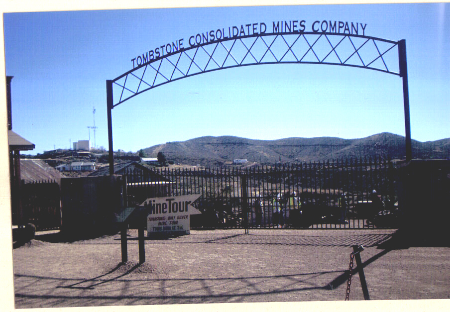 Schieffelin Mine in Tombstone, Arizona. The Schieffelin mine was discovered by Ed Schieffelin in 1878. It produced silver worth millions of dollars. This property is located within the Tombstone Historic District listed in the National Register of Historic Places, ref: 66000171